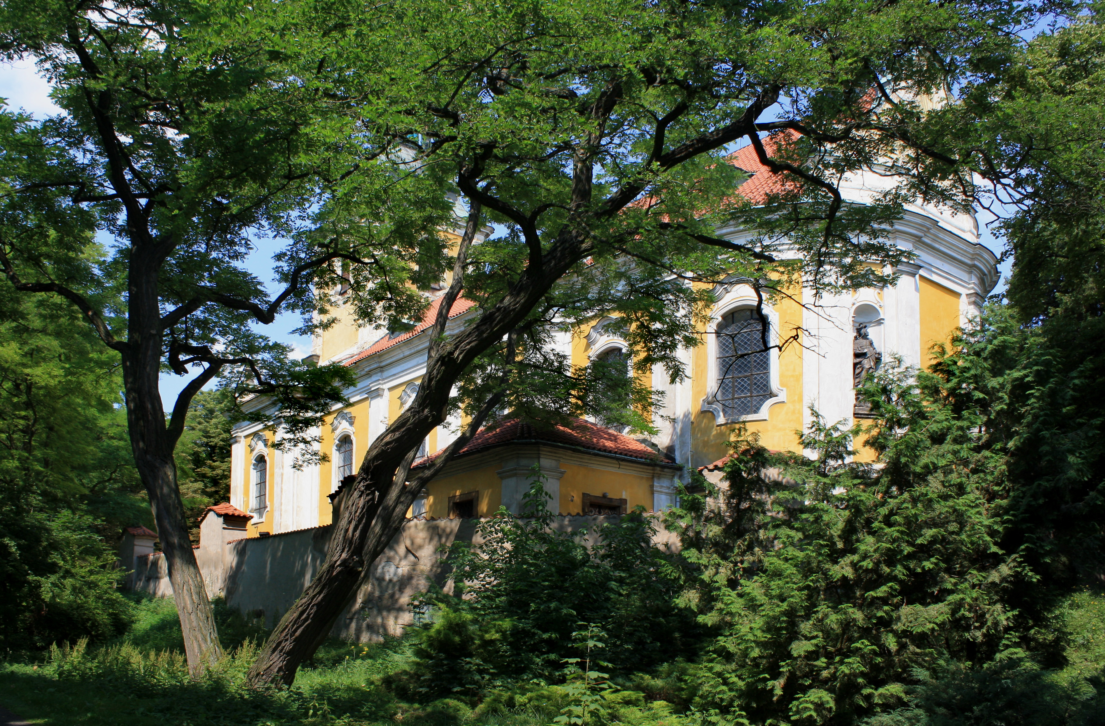 Church of the Nativity of Saint John the Baptist in Vraný, Czech Republic